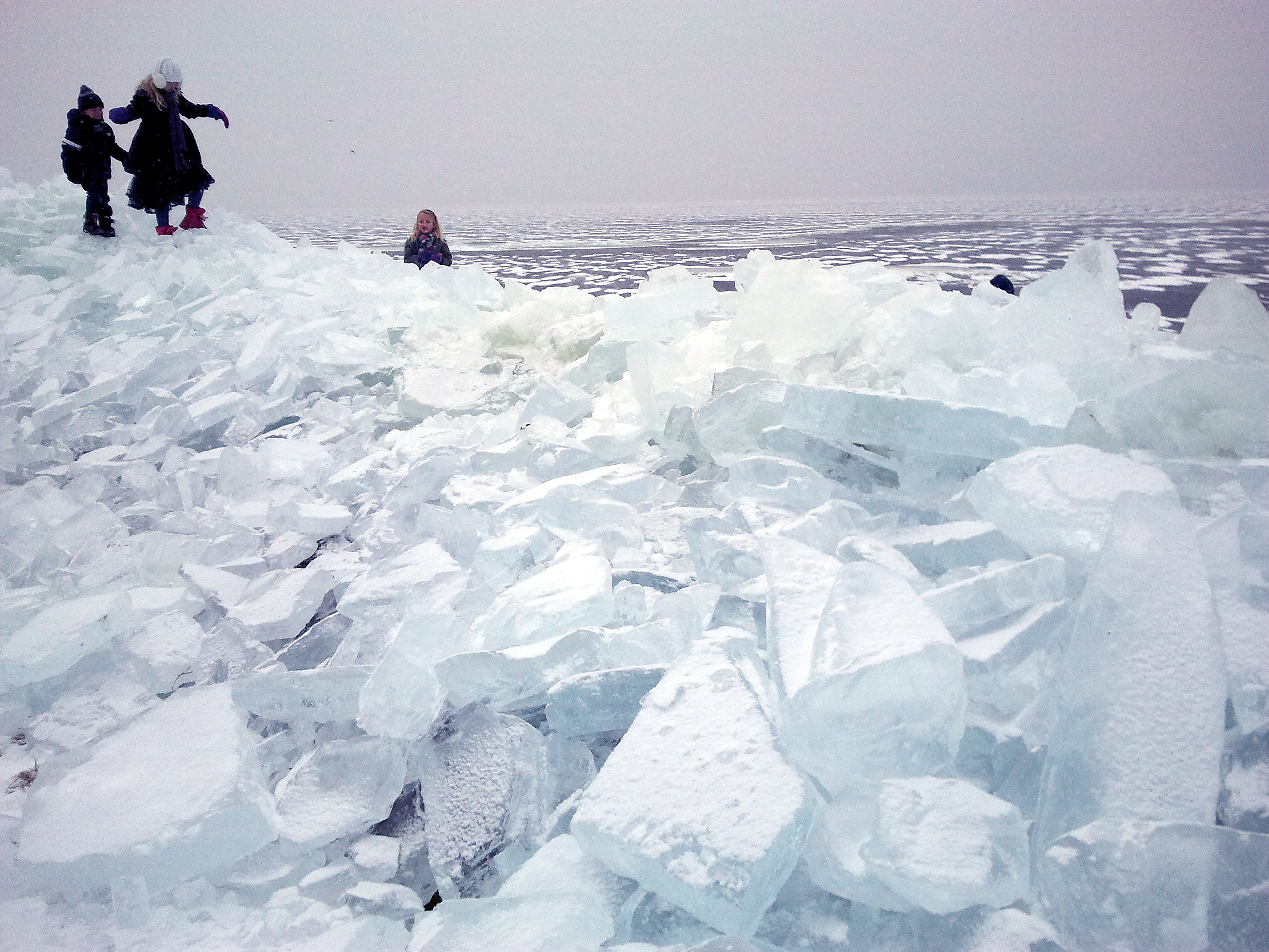 Ice mass Urk, Netherlands, lighthouse location, near dyke, feb 12 2012